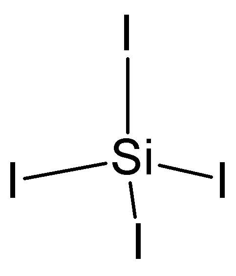 I made it myself using ACD/Chemsketch